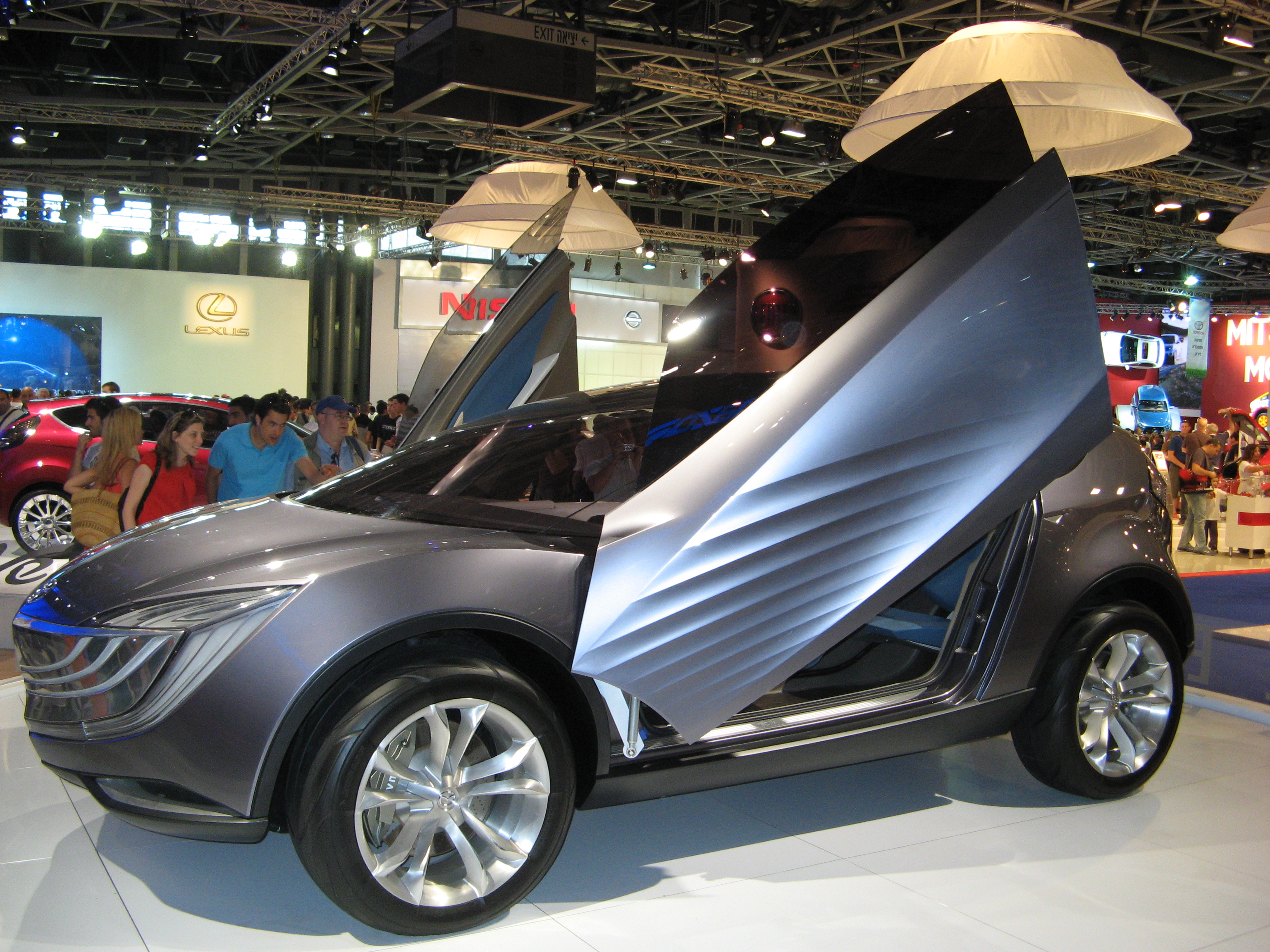 Was taken at Automotor exhibition in Israel, Tel-Aviv in April 2008.